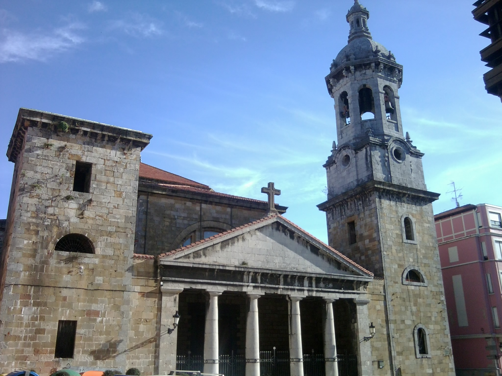 The church of Santa Maria, in Bermeo.